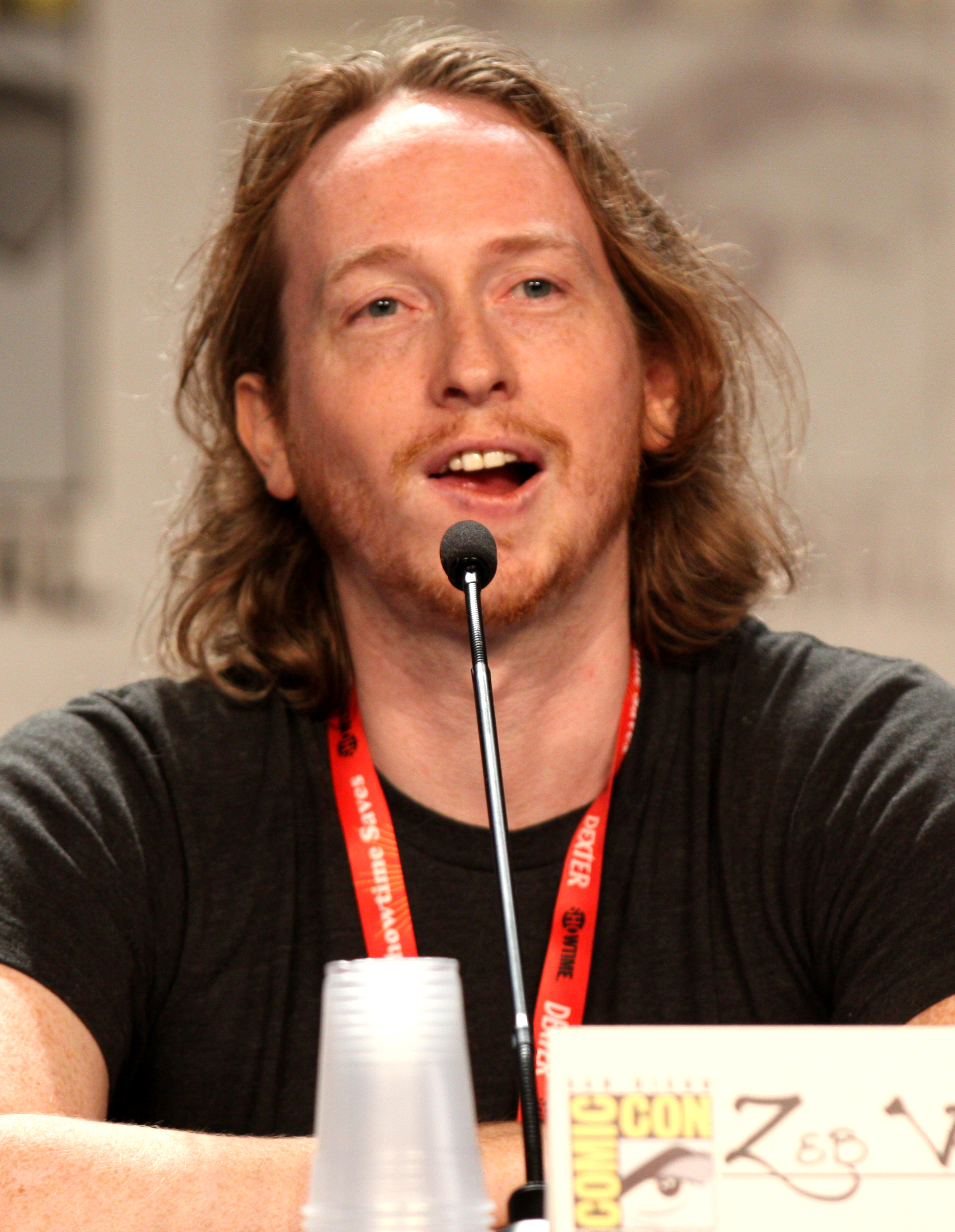 Zeb Wells at the 2011 Comic Con in San Diego